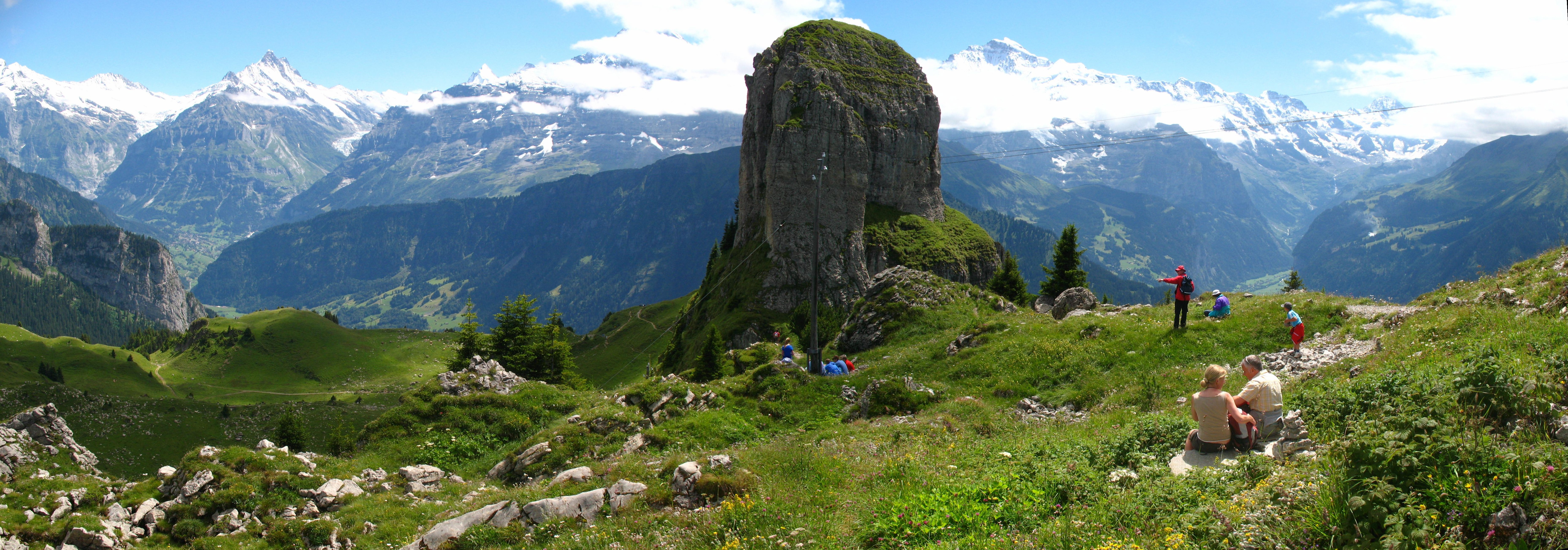 Wetterhorn, Mettenberg, Schreckhorn, Finsteraarhorn, Eiger, Mönch, Männlichen, Jungfrau, Silberhorn, Ebnefluh, Mittaghorn, Grosshorn, Breithorn, Lütschine Valley and the Lauterbrunnen Valley viewed from Schynige Platte, Switzerland This panoramic image was created with Autostitch (stitched images may differ from reality).